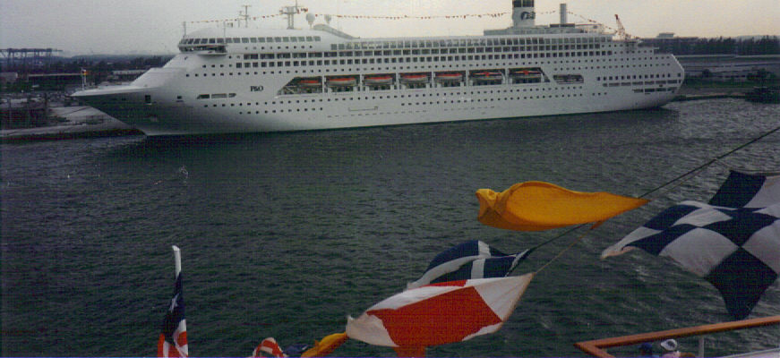 Regal Princess at Port Everglades in Ft. Lauderdale, Florida